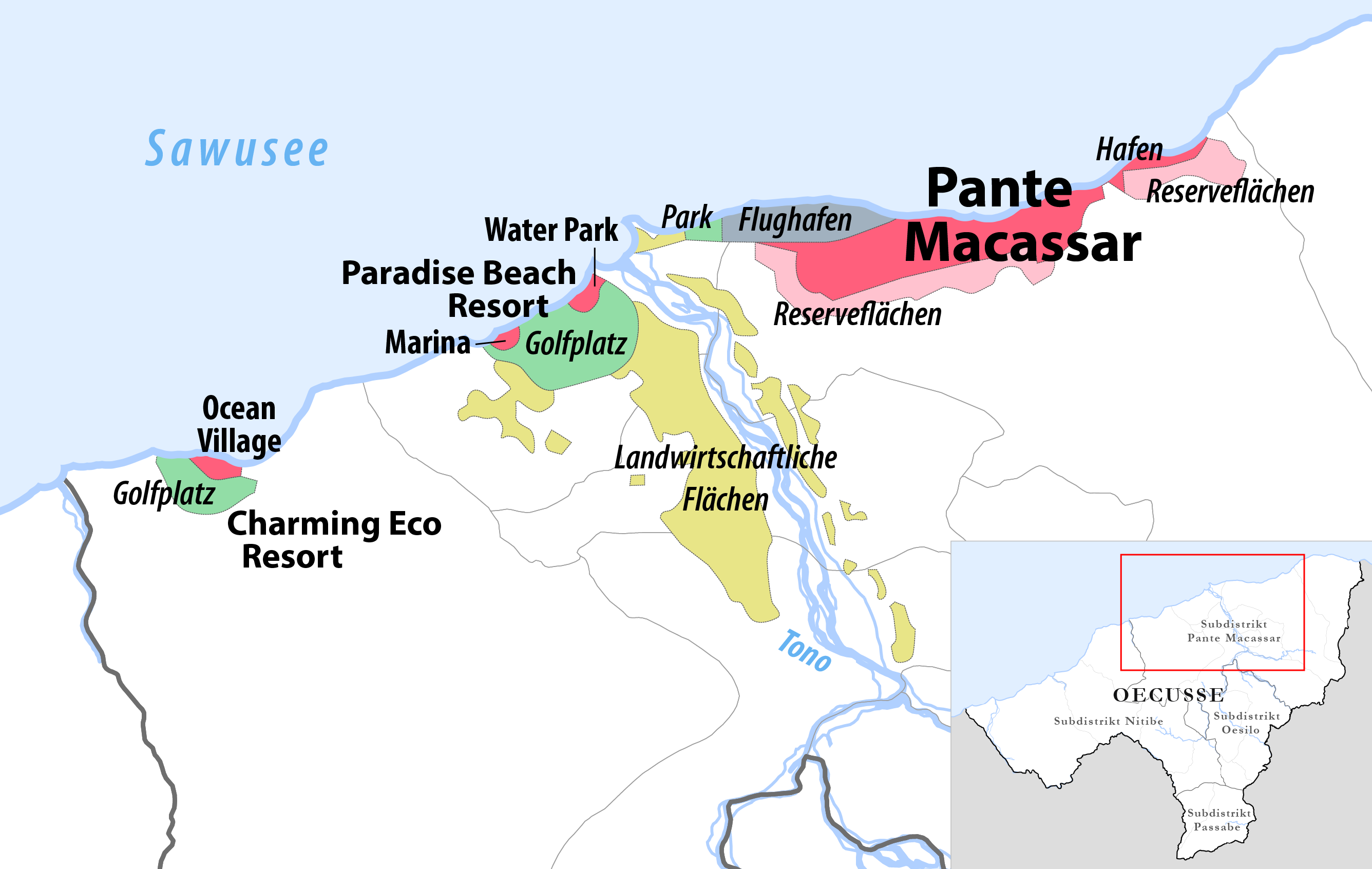 Map of the economic special zone ZEESM in Oecusse, East Timor